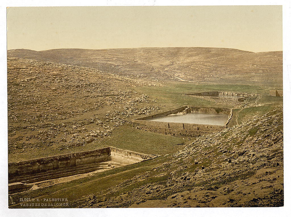 Photochrome print of the Pools of Solomon, Bethlehem, Palestine, 1890-1900